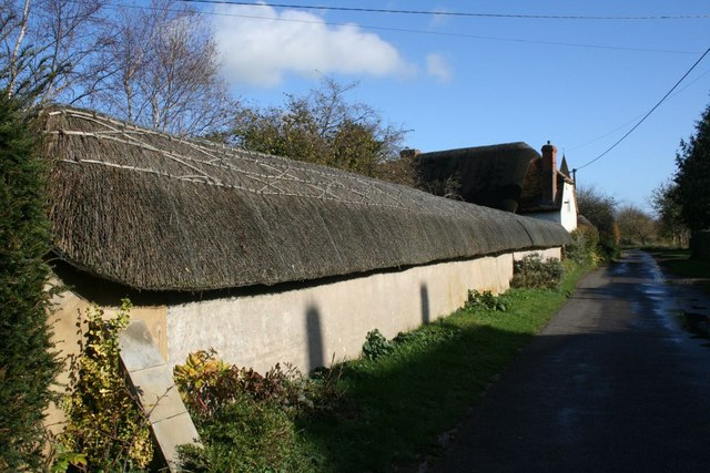 Thatched wall in Church Street, Appleford, Oxfordshire (formerly Berkshire)